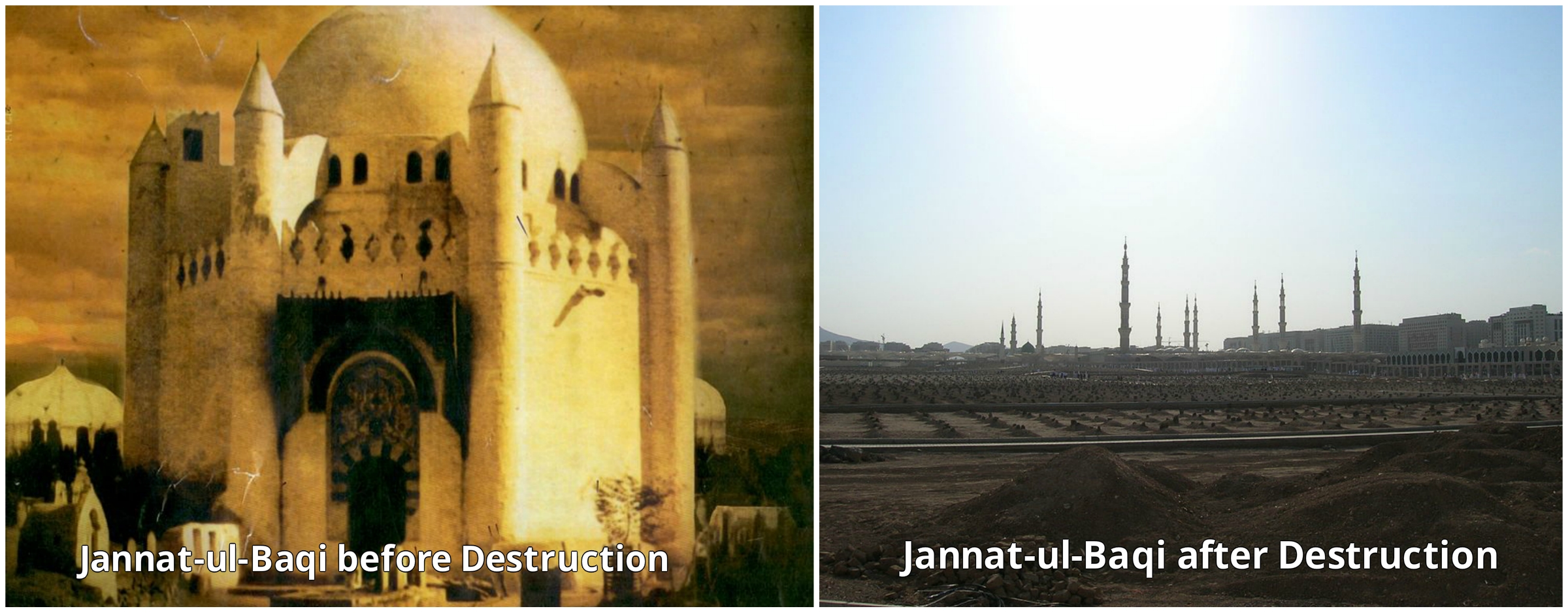 Before and After Wahhabism